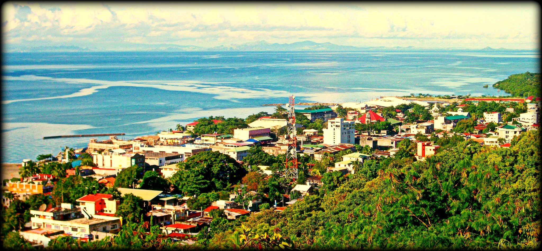 Maasin City facing the island of Bohol i